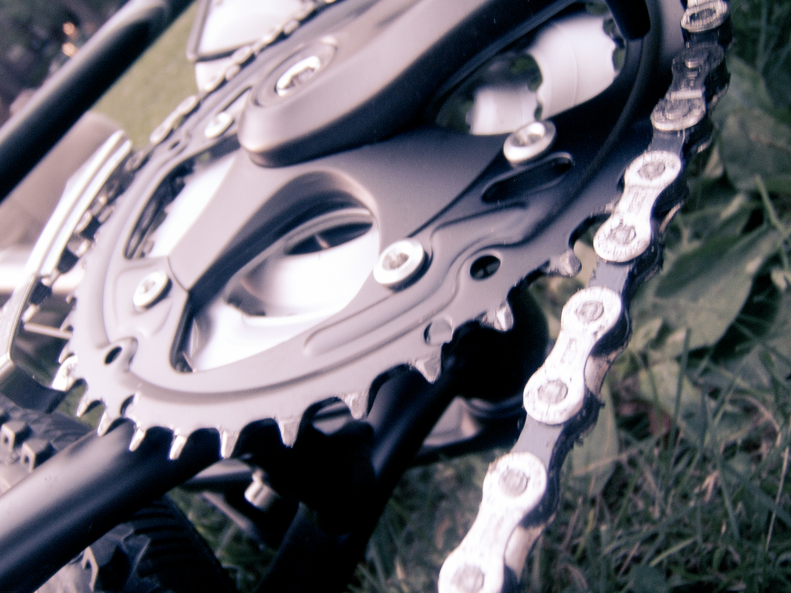 Bike chain